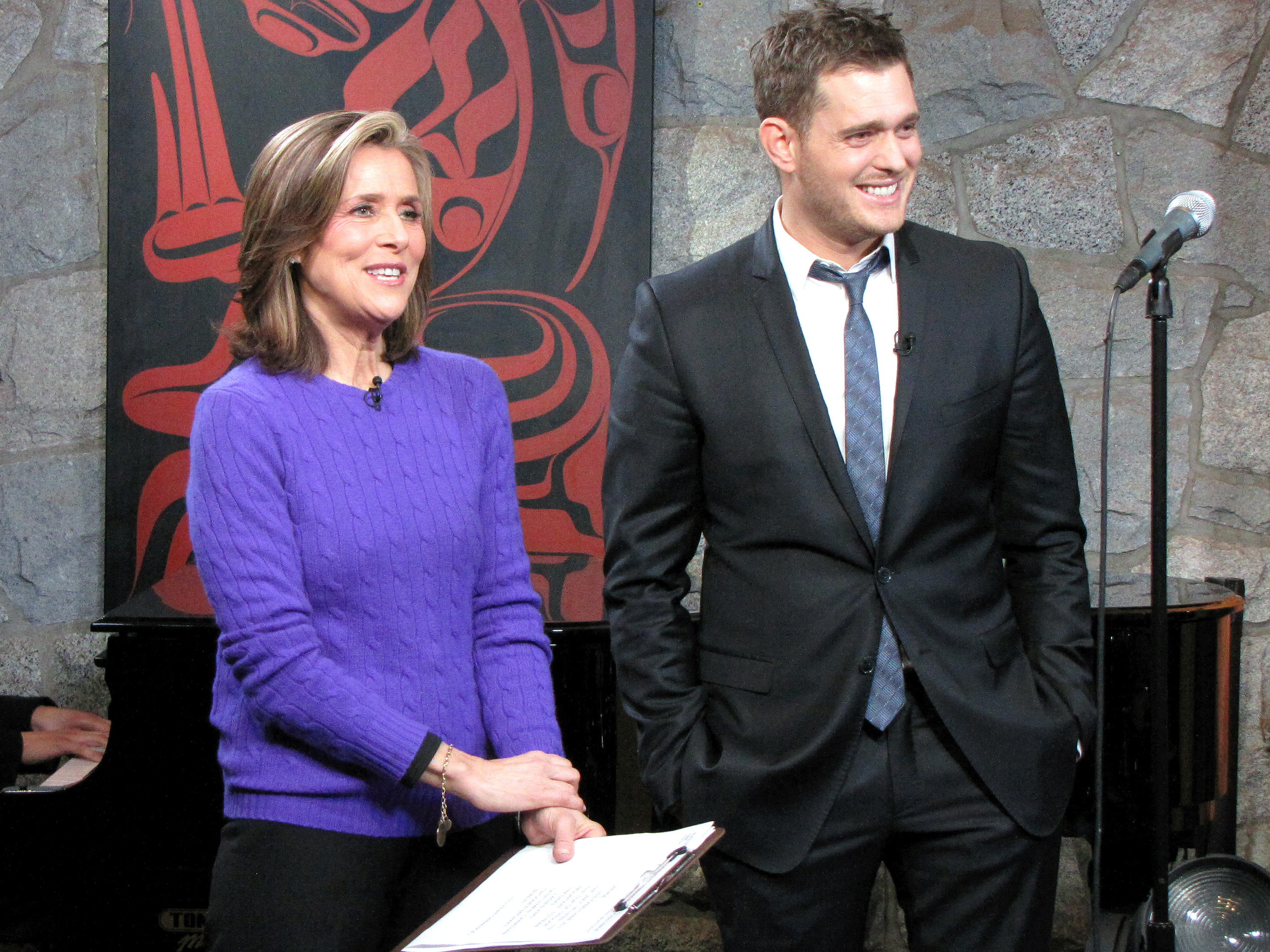 Michael Buble with Meredith Vieira on the Today Show set at the Vancouver Winter Olympics.